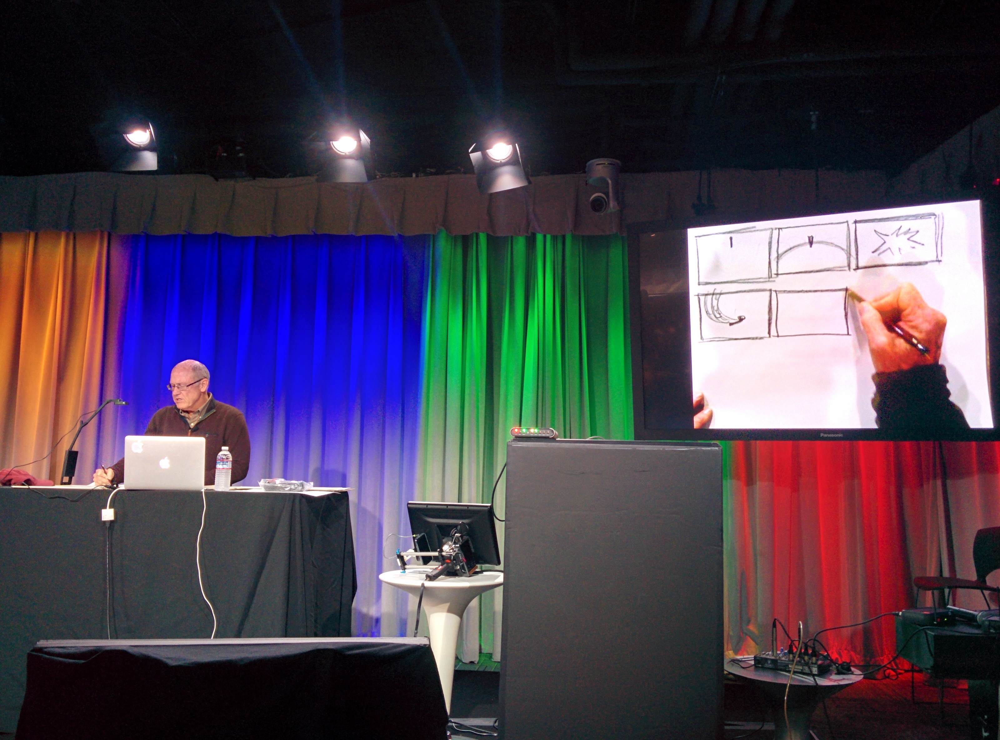 Glen Keane demonstrating storyboarding at a talk entitled "The Principles of UX Choreography".